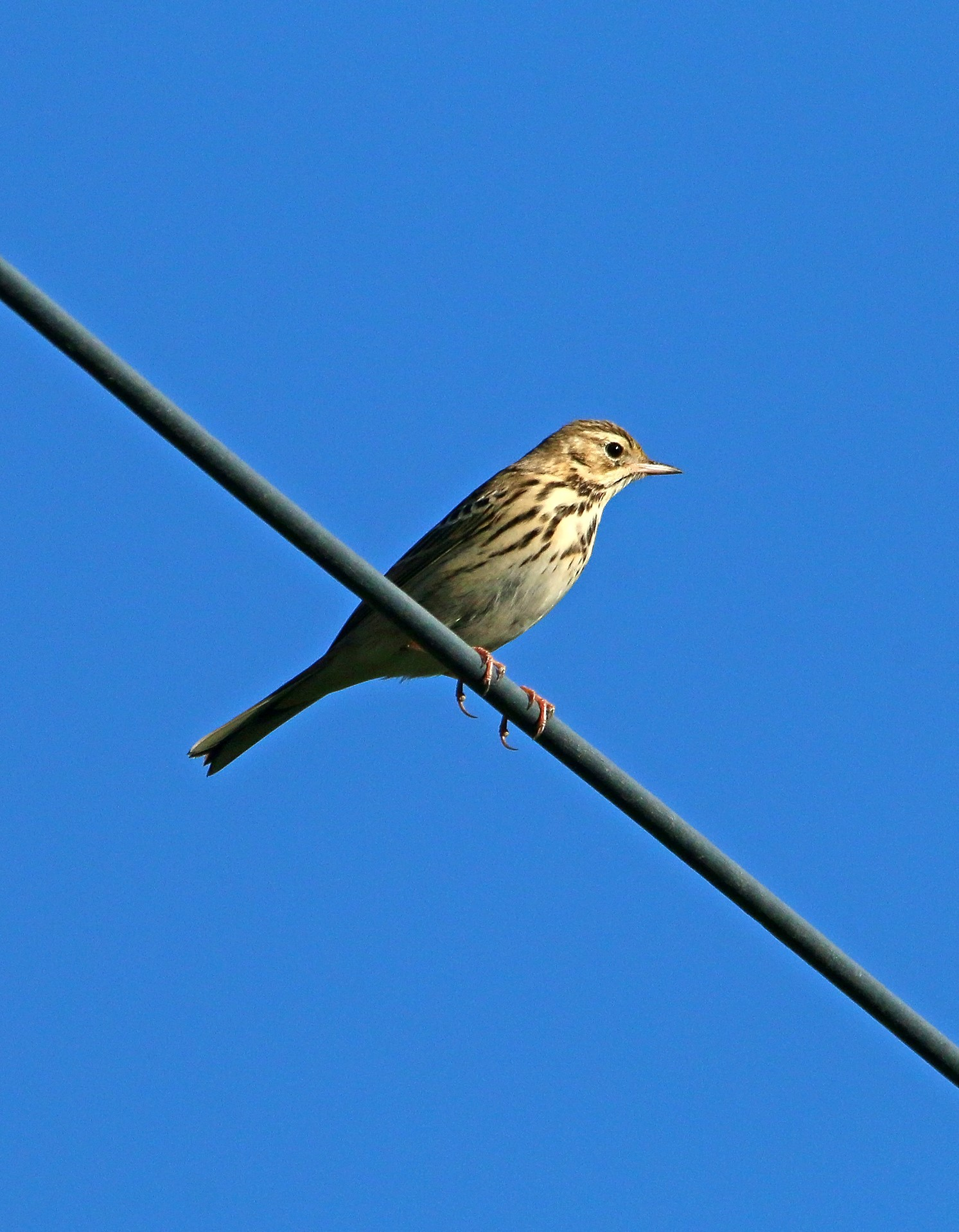 Tree Pipit (Anthus trivialis) captured at Aliabad, Hunza, Gilgit-Baltistan, Pakistan with Canon EOS 70D